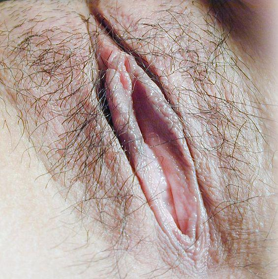 The Human Vulva